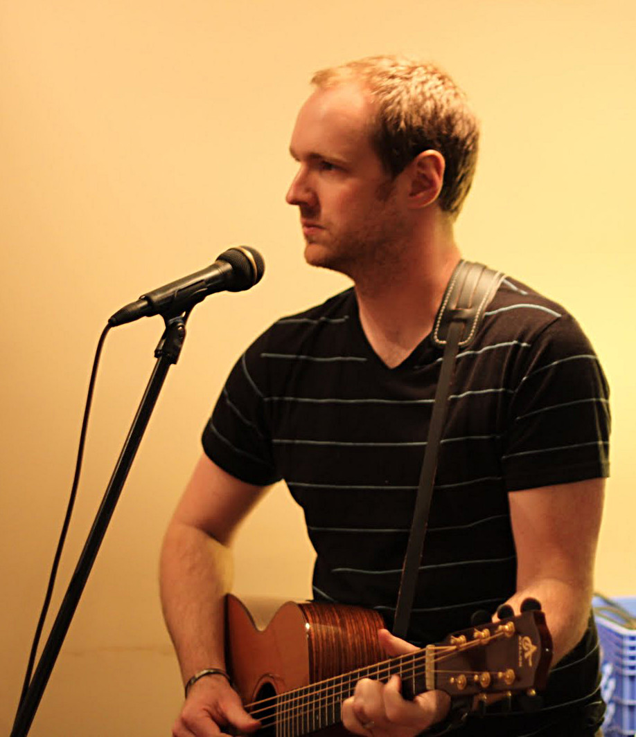 Andrew Osenga, performing at Para Coffee, Charlottesville, VA, 18-Mar-2010.